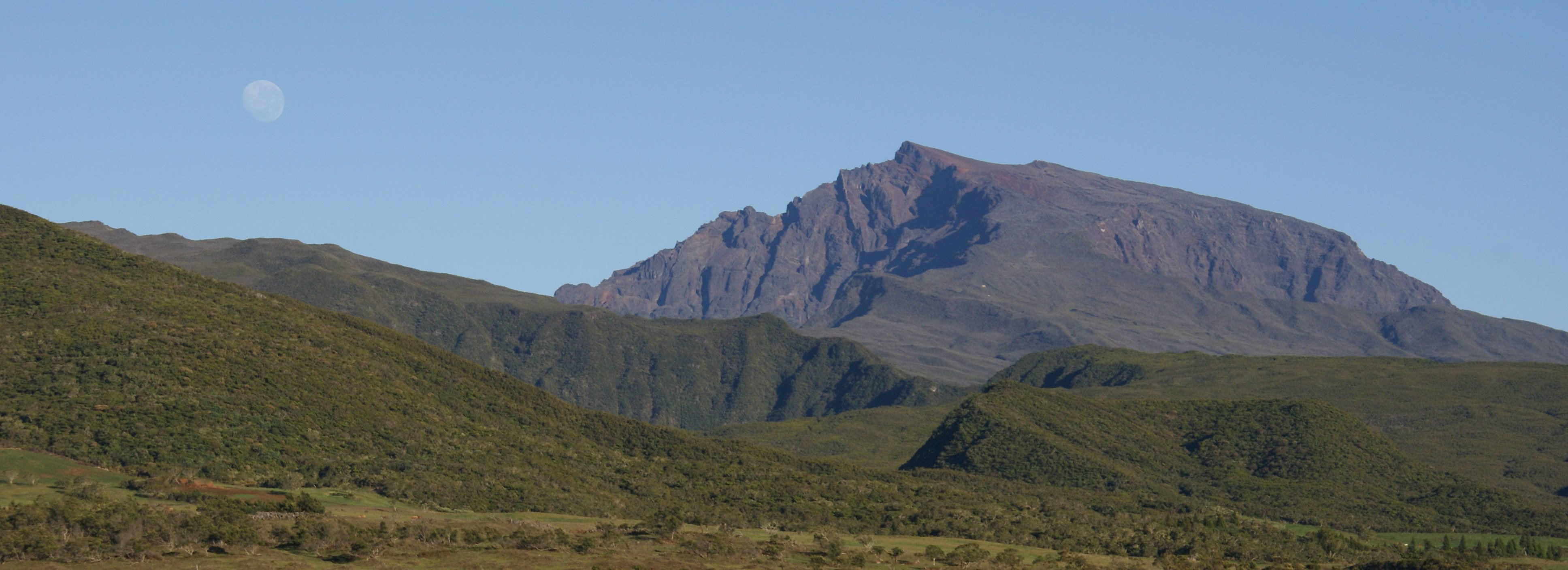 Piton des Neiges, highest peak (3,070 m) of Réunion island